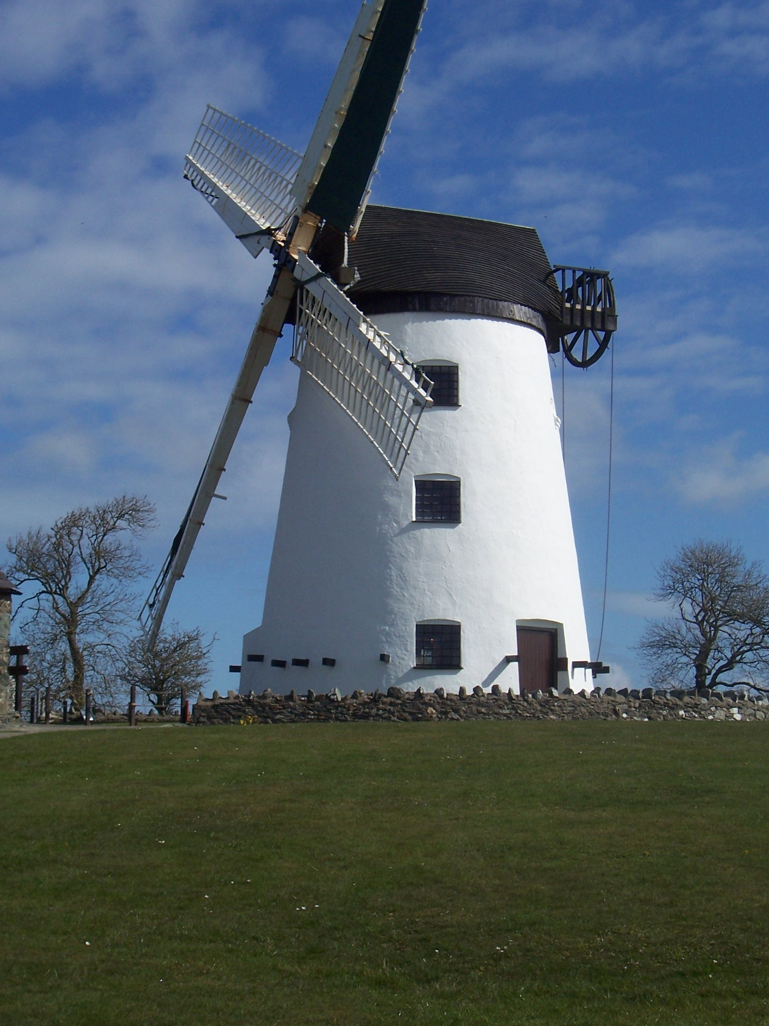 Melin Llynon, Llandeusant, Anglesey